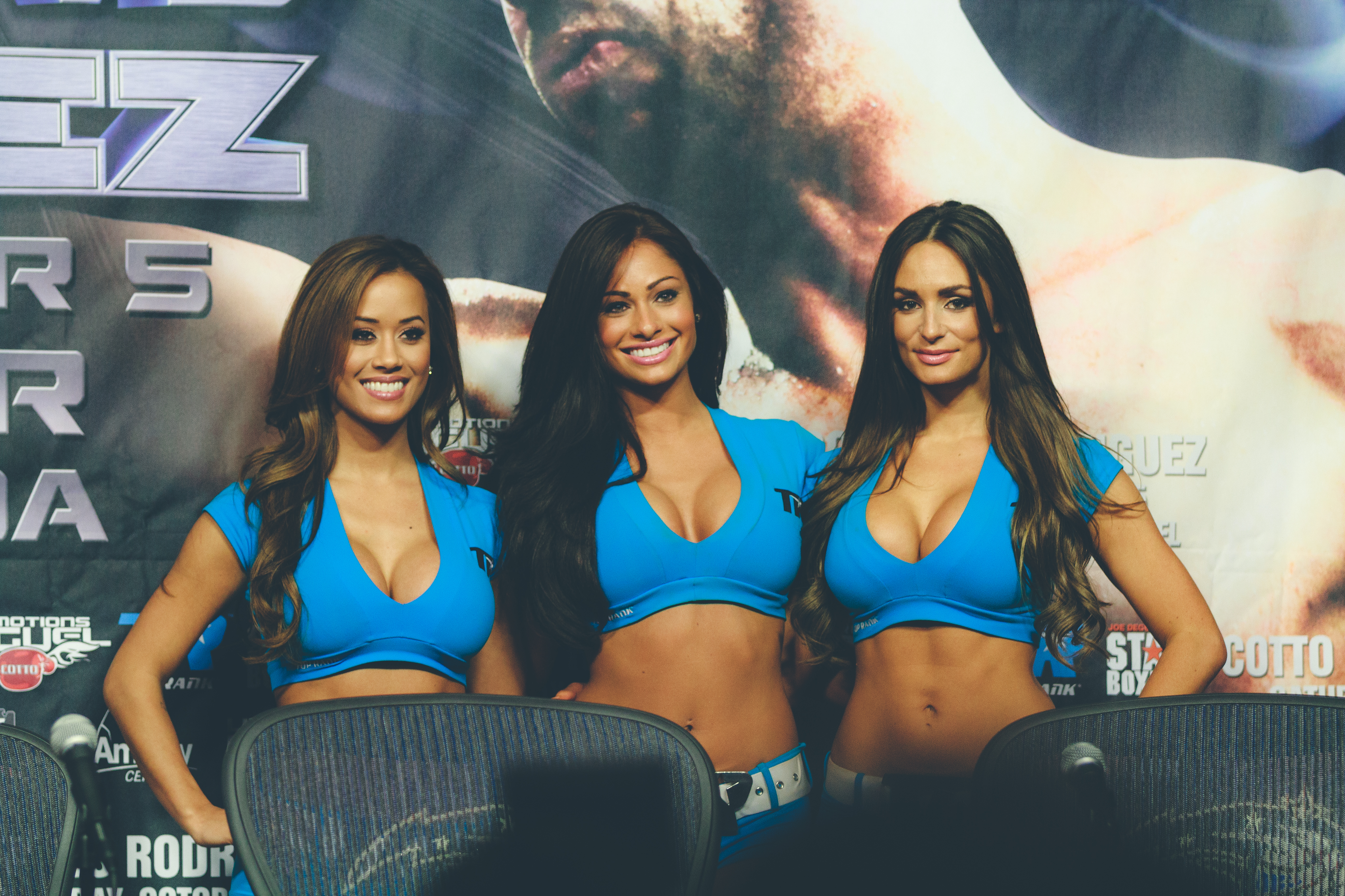 Ring girls at the Miguel Cotto vs Delvin Rodríguez post fight press conference. L-R: Jen Mateo, Brittany Parks, Rosie Roff